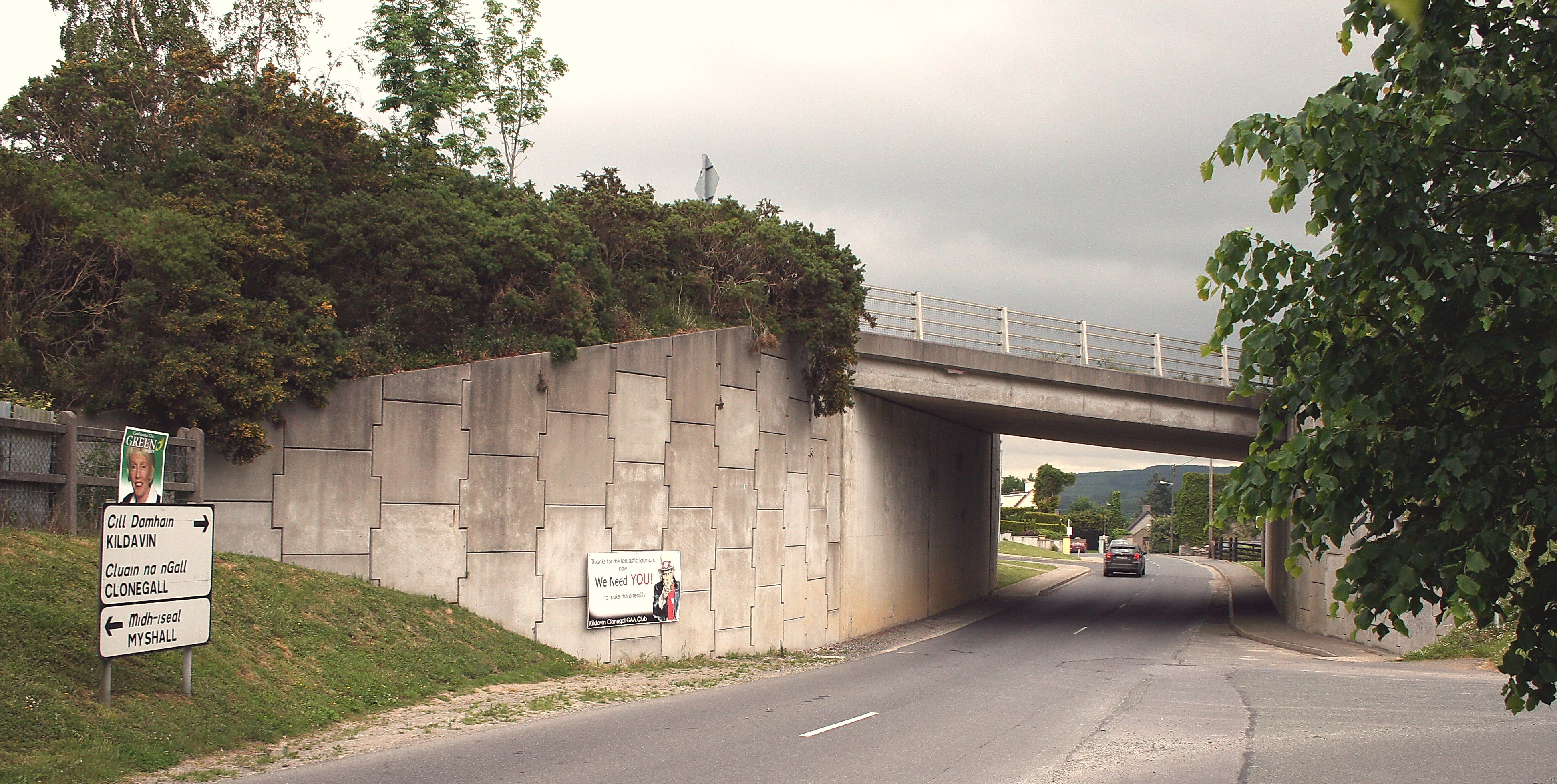 The R734 passes under the N80 in the village of Kildavin, County Carlow, Ireland